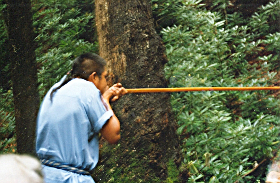 Demo of Blow Gun in Oconaluftee Indian village, Cherokee, NC Photo by Jan Kronsell, 2000